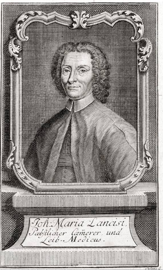 Giovanni Maria Lancisi